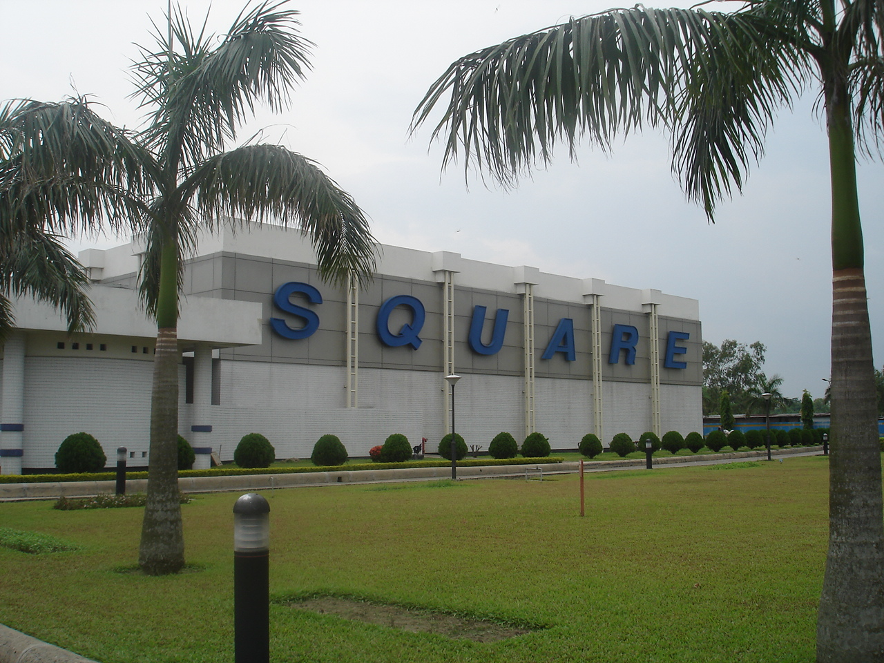 Square Pharmaceuticals Ltd. near Kaliakoir, Gazipur, Bangladesh